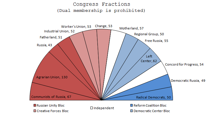 Russian Congressional Fractions 1993, fraction/bloc colors are arbitrary, fraction/bloc locations are arbitrary